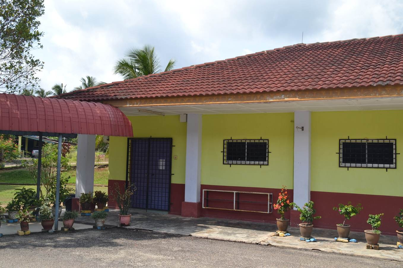 Computer Lab